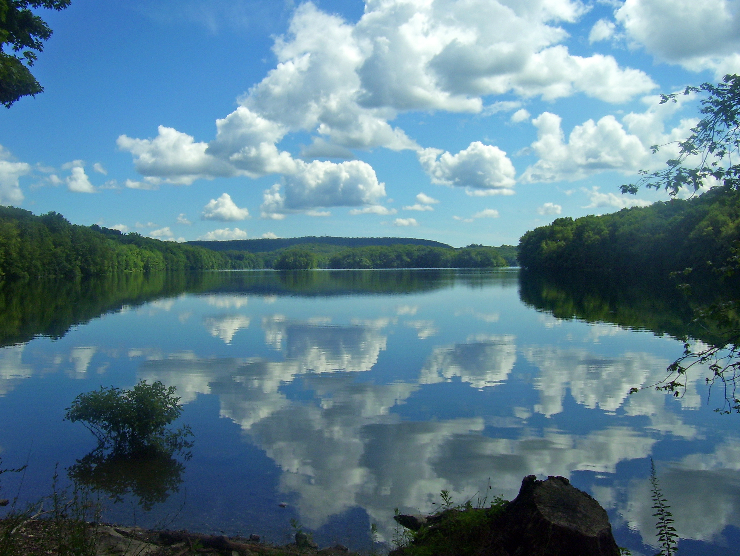 Bog Brook Reservoir from NY 312 on the north end